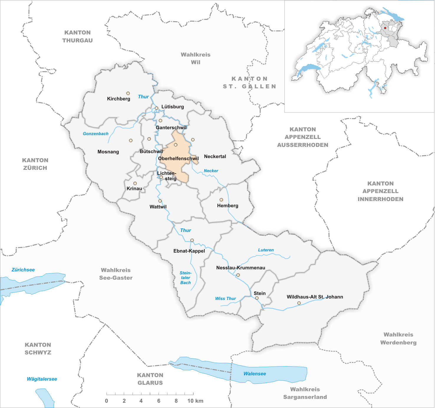 Municipality Oberhelfenschwil